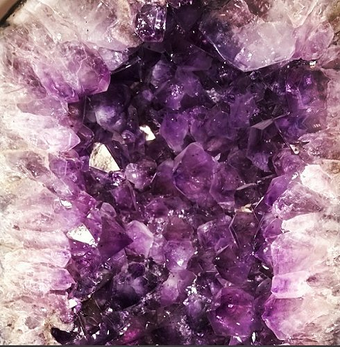 Large Amethyst Geode